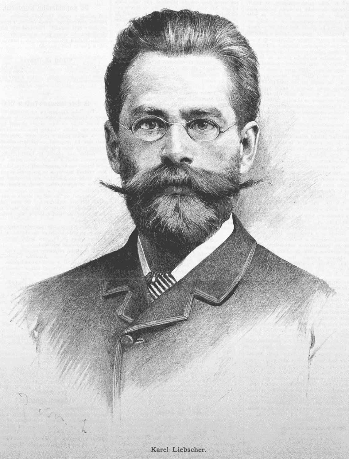 Portrait of Karel Liebscher, Czech painter of landscapes.